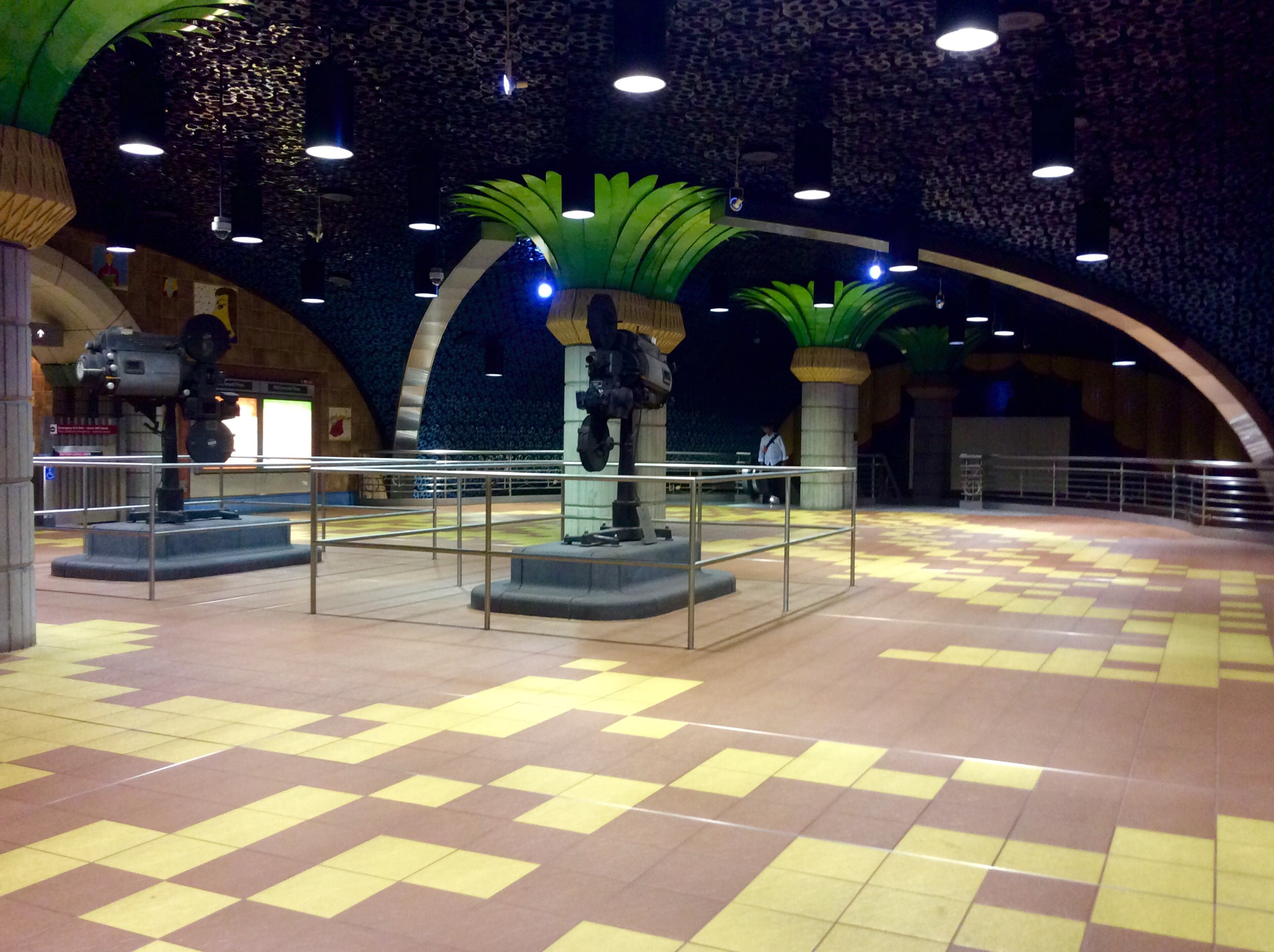 The upper floor view of Hollywood/Vine Station.